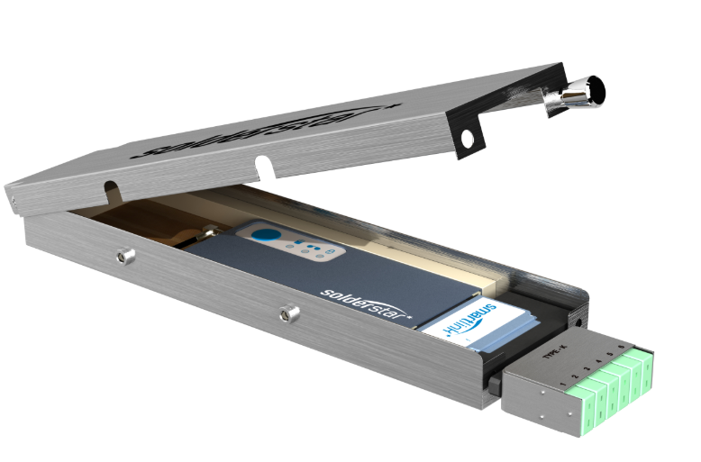 An example 6 channel profiler from Solderstar, specifically designed to pass through a reflow oven along with the assembly to allow capture of component temperatures.